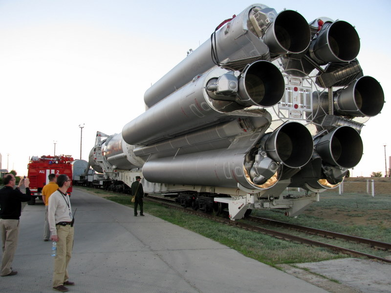 First stage of Proton-M rocket launcher. Launch campaign BADR-5 (Arabsat-5B), 30.05.2010